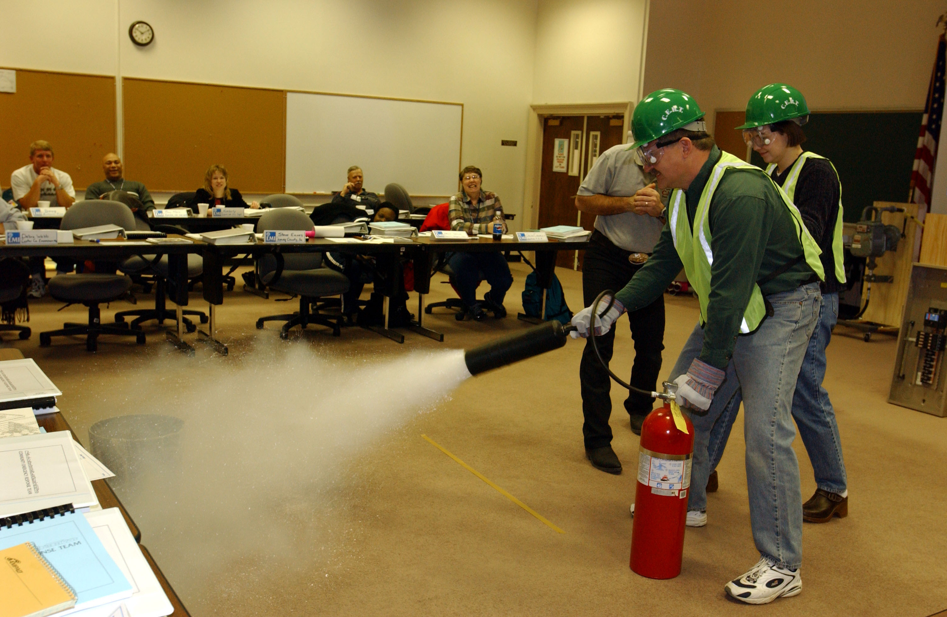 Emmitsburg, MD, March 10, 2003 -- FEMA's National Emergency Training Center is the site for dozens of classes, including sessions that train Community Emergency Response Team (CERT) leaders from across the country. CERT is an important tool for local emergency managers. Photo by Jocelyn Augustino/FEMA News Photo